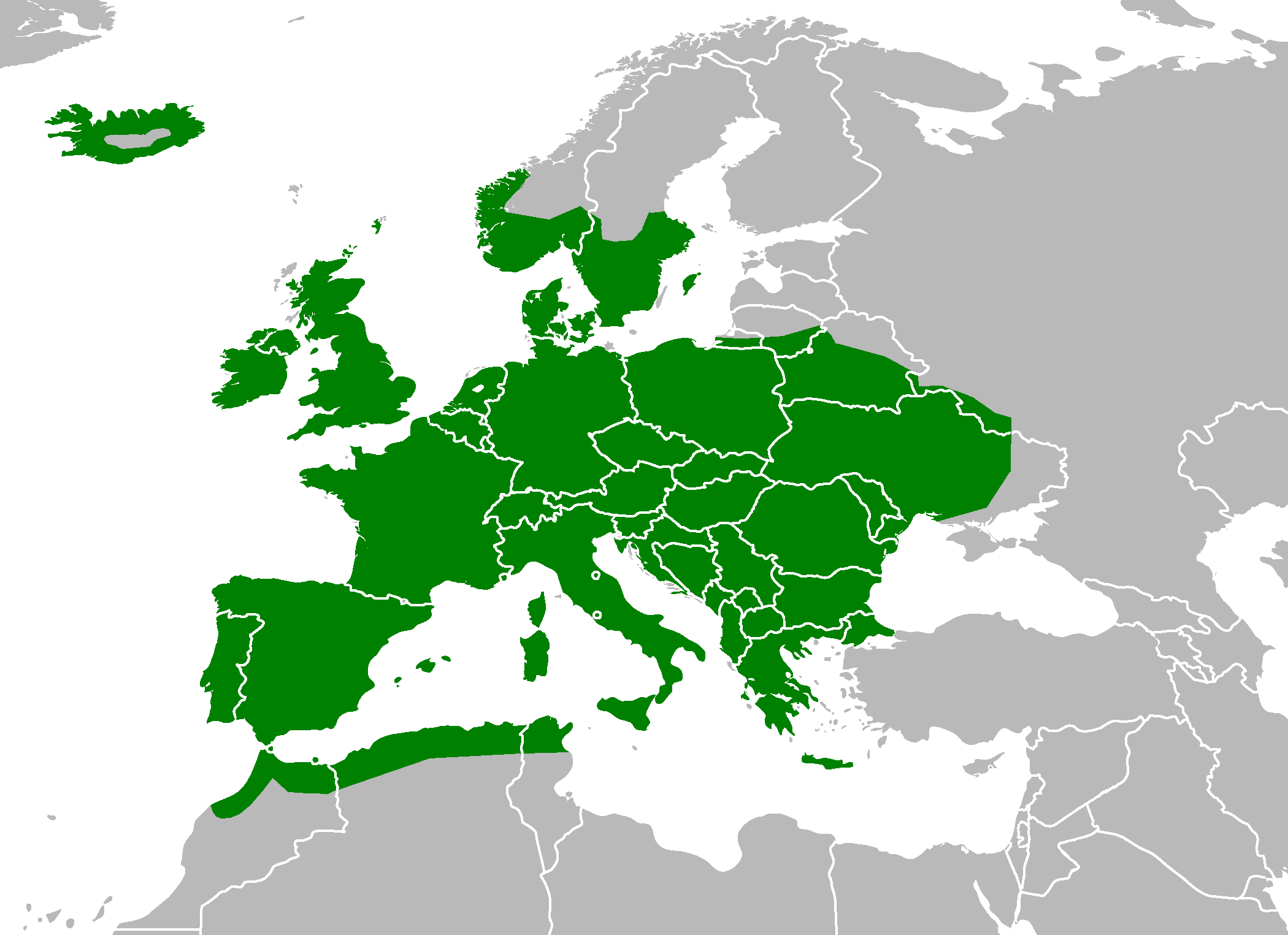 Distribution of the Wood Mouse (Apodemus sylvaticus). Source: IUCN